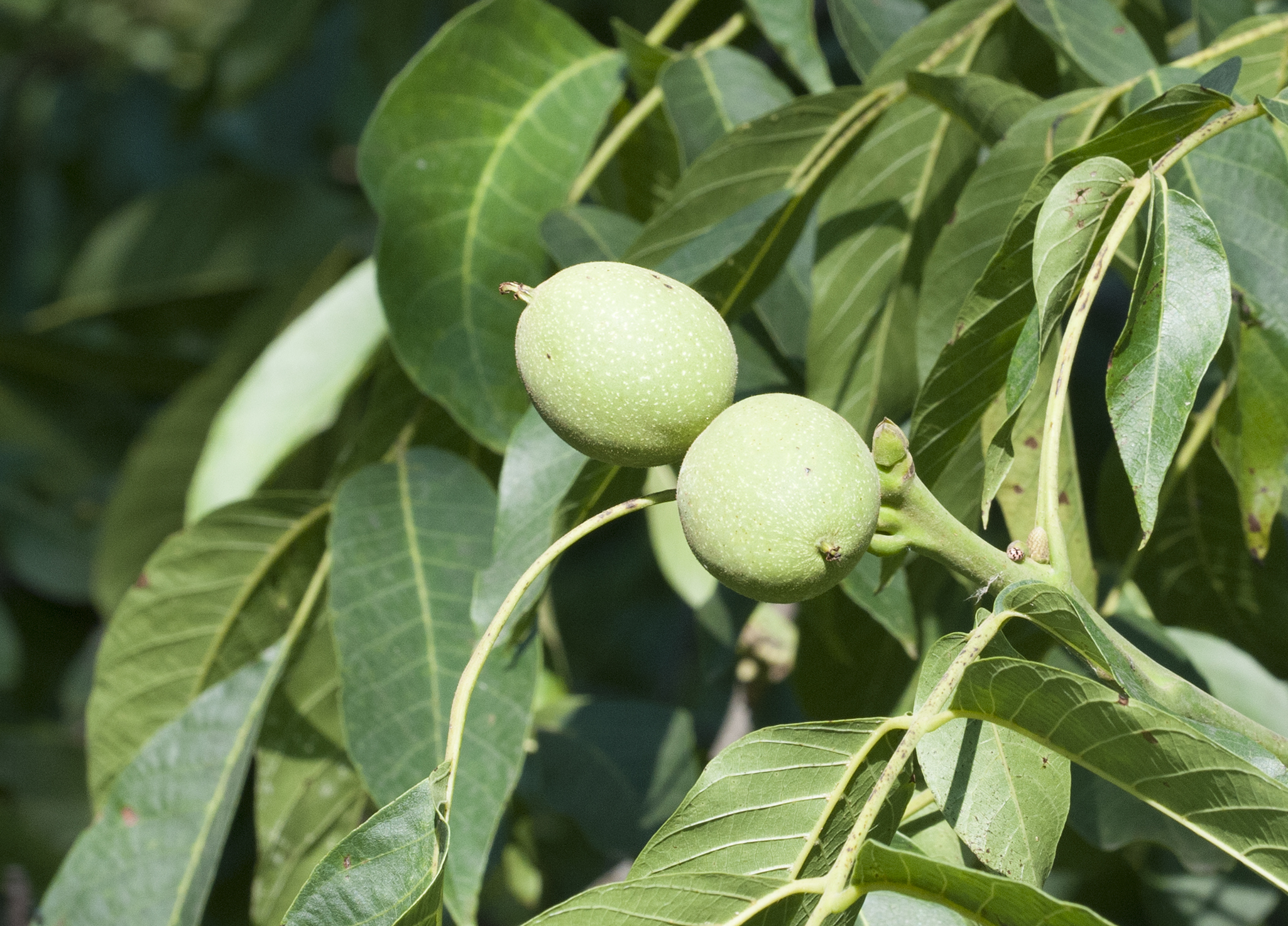 A couple of fresh nuts of a walnut (Junglans sp). Darboğaz, Ulukışla - Niğde, Turkey.